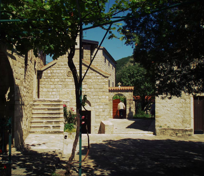 Reževići Monastery.